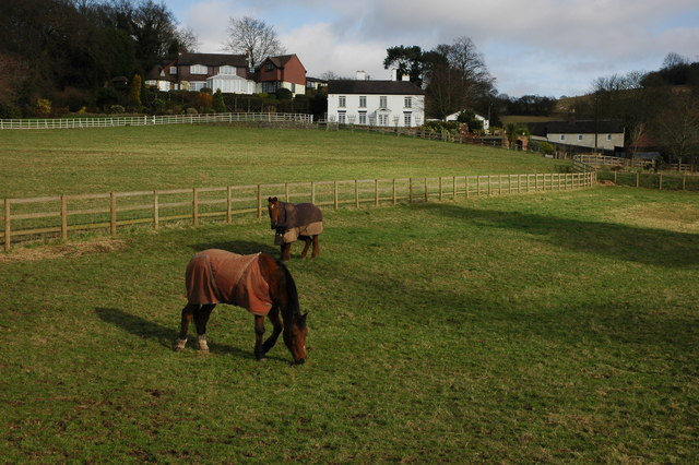 Horses in a paddock below Cottage On The Hill, Walton Pool House and Walton Pool Cottage, in Walton Pool a hamlet in the village of Clent, on an approach to Walton Hill (viewed from just off the footpath to the south-east of Clent church).